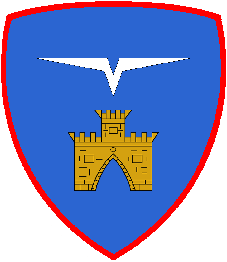 Coat of Arms of the Italian Army Airmobile Brigade Friuli after 1999